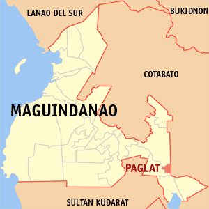 Map of the Maguindanao showing the location of Paglat